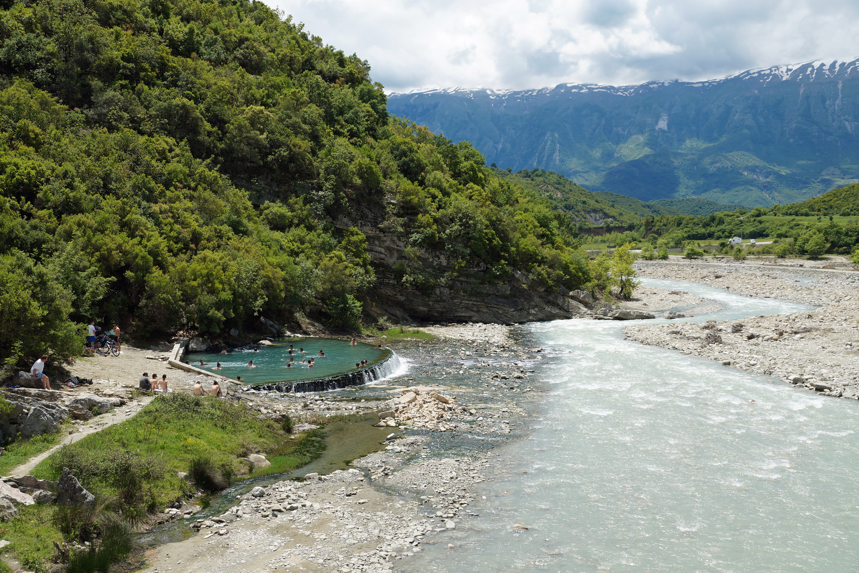 Banjat e Benjës with river Lengariça and bathers at the big basin